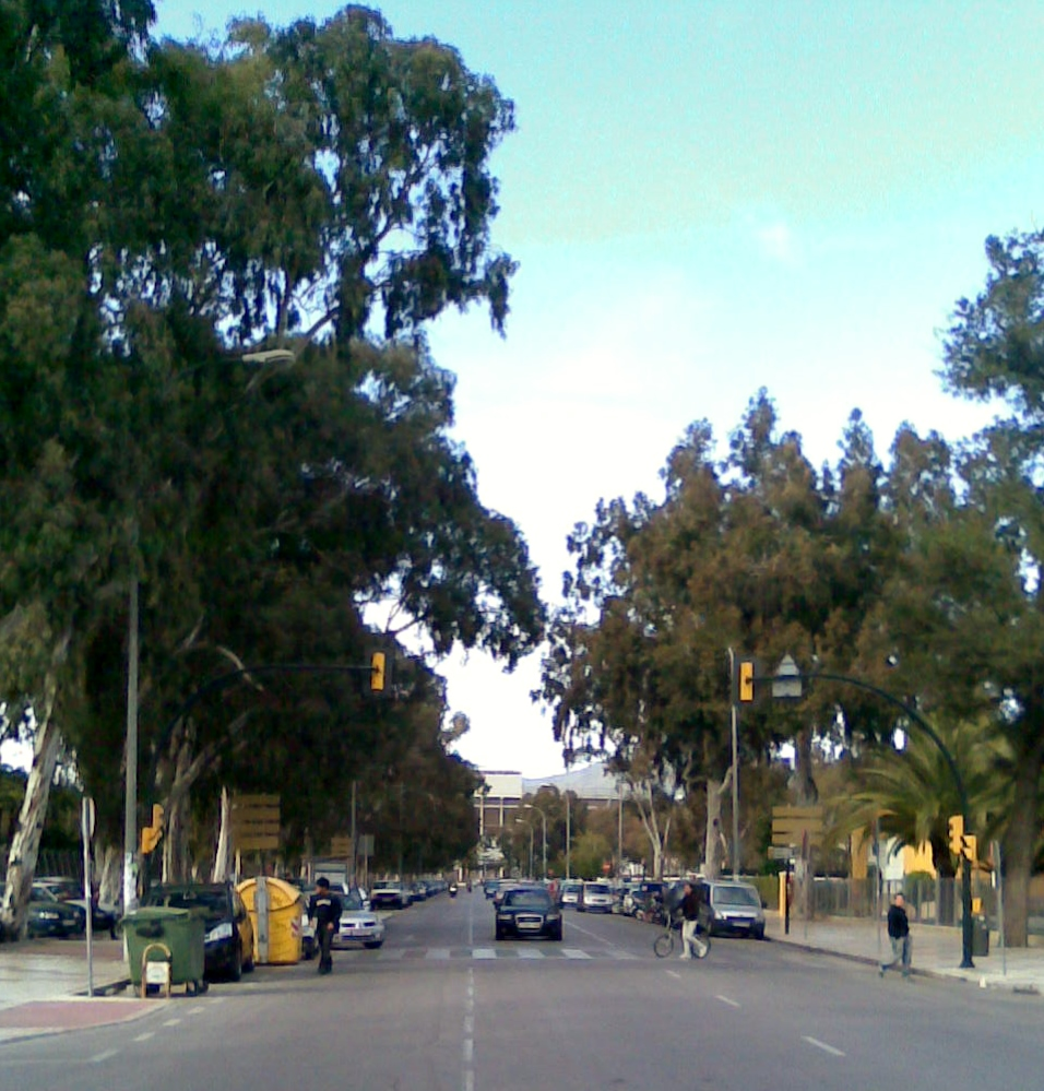 Martiricos Walk, Málaga, Spain. At the end, La Rosaleda stadium.